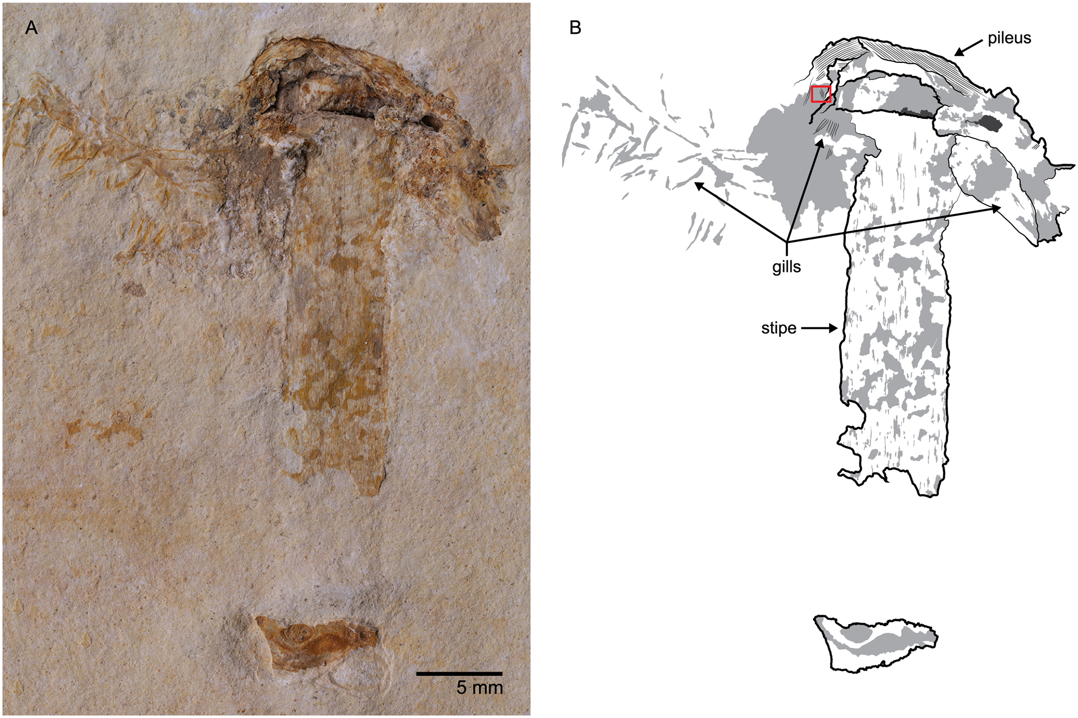 Gondwanagaricites magnificus gen.etsp.nov. (A) Photomicrograph of holotype (URM88000) showing general habitus. (B ) Interpretive drawing of (A) with major morphological features indicated.